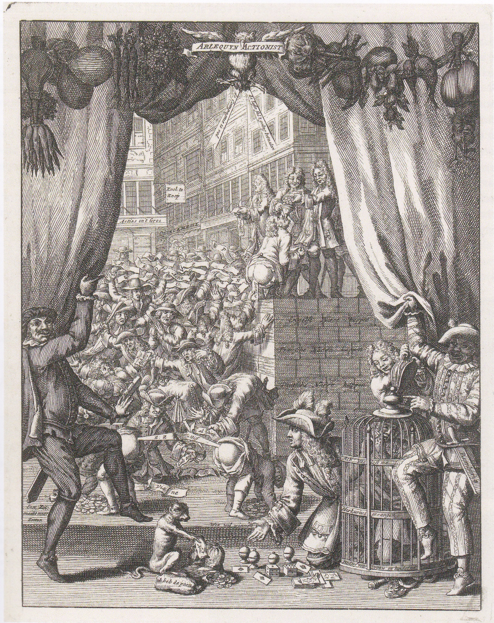 Arlequyn Actionist, cartoon from 1720 mocking stock gambling. (Probably also satirizing John Law). People literally shit shares. Etching from Het groote tafereel der dwaasheid by Pieter Langendijk, Amsterdam, 1720